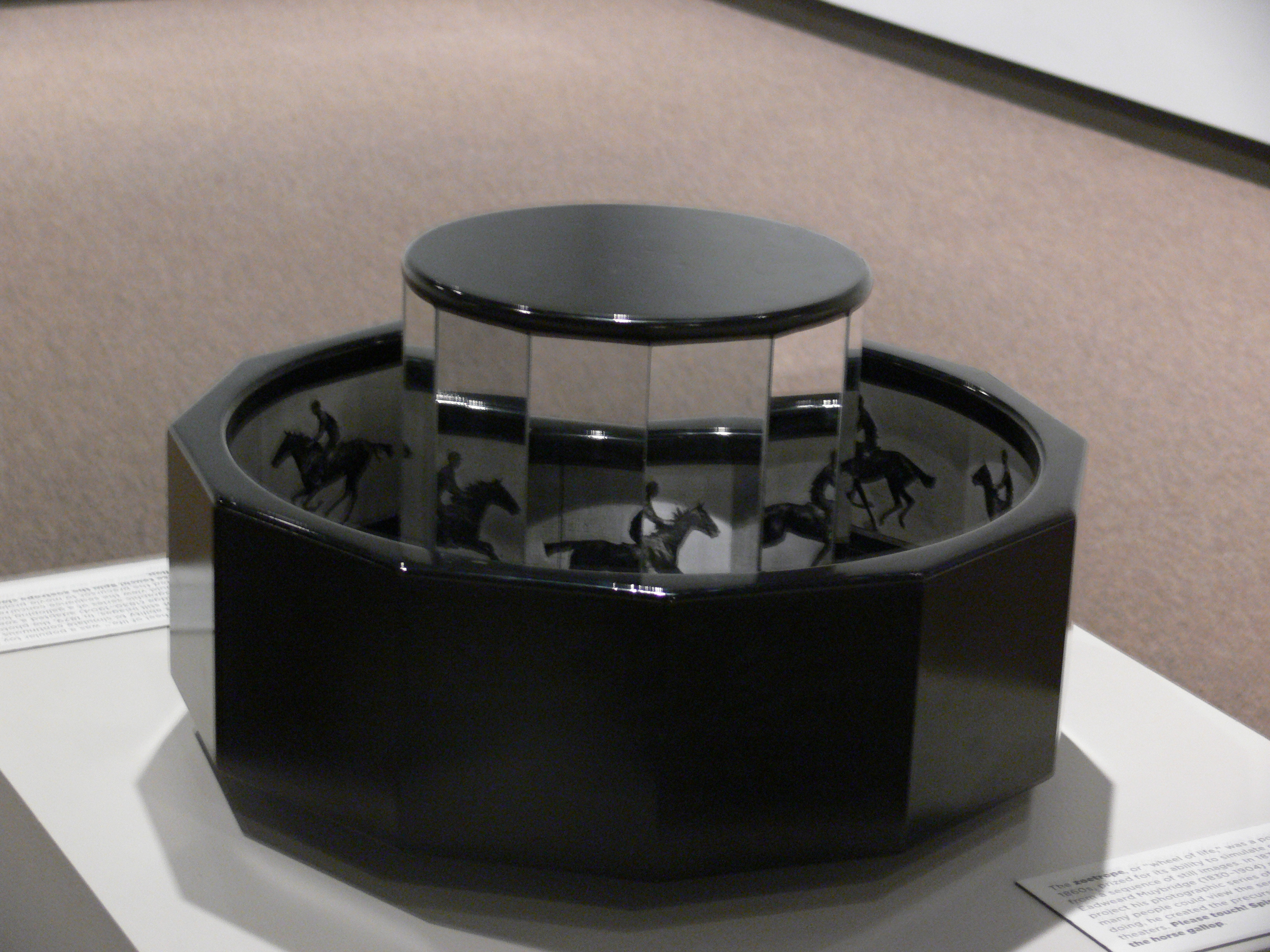 The zoetrope displayed at the Amon Carter Museum in Fort Worth, Texas, shows a photograph series of a galloping horse by Eadweard Muybridge (1830-1904).